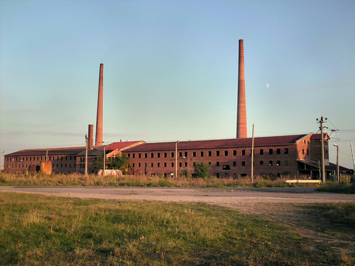 Cherna Gora village's prison and brick factory.